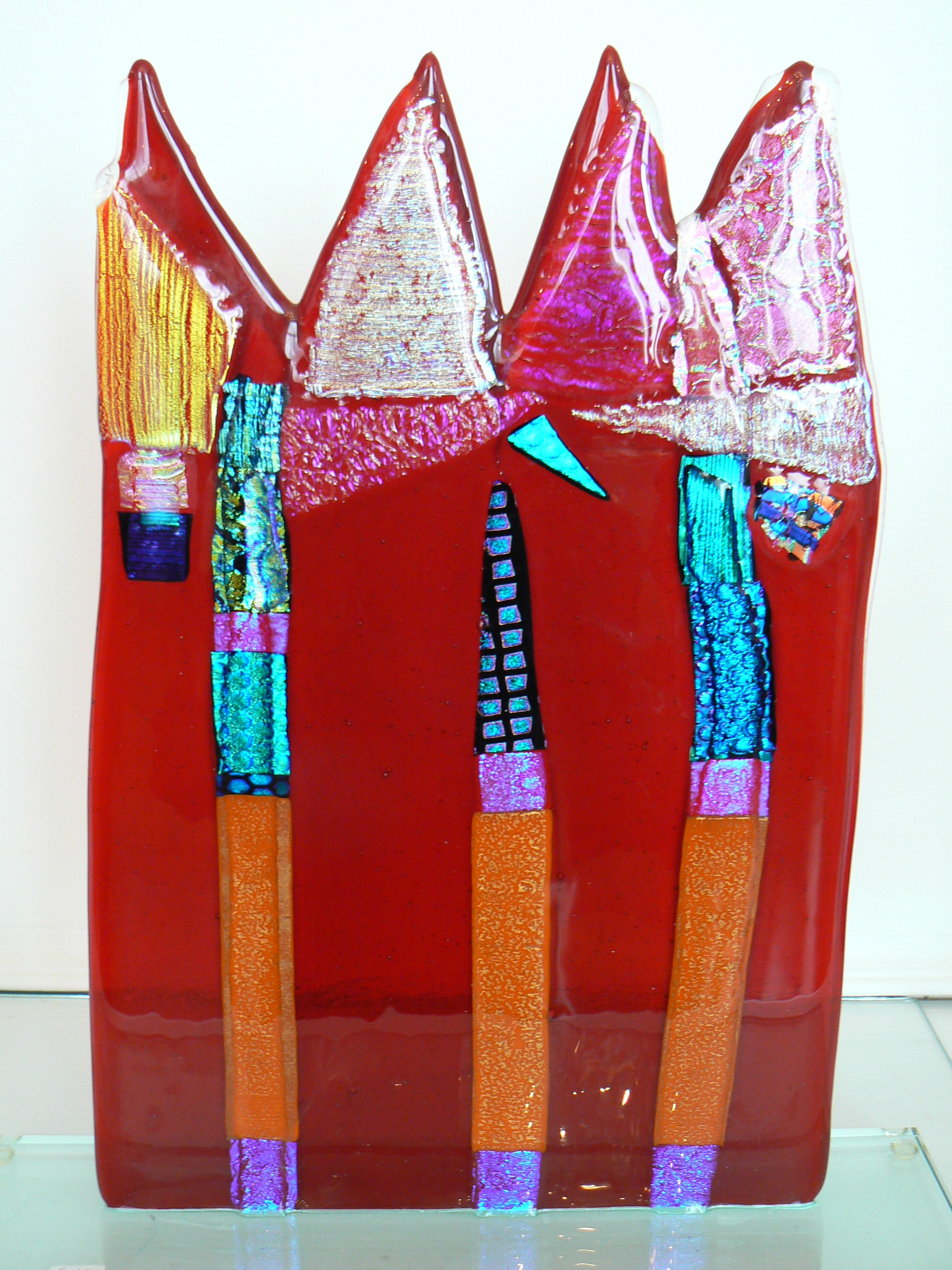 glassfusing work by Bert Grotjohann in the Netherlands